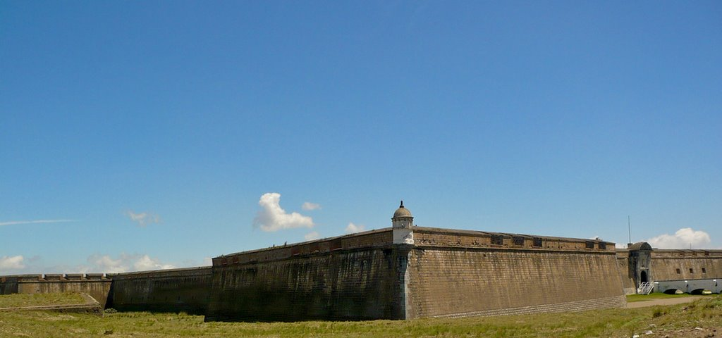 The Fort of San Carlos in Perote, Veracruz, Mexico.